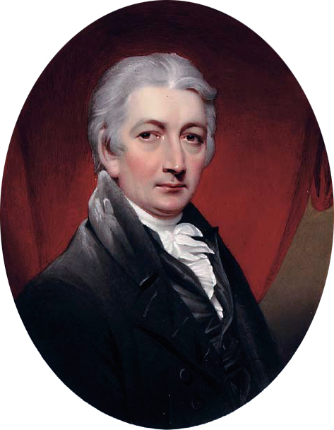 Henry Bone, R.A (1755-1834), the artist's father, facing right in black coat and waistcoat and frilled cravat; draped red curtain background